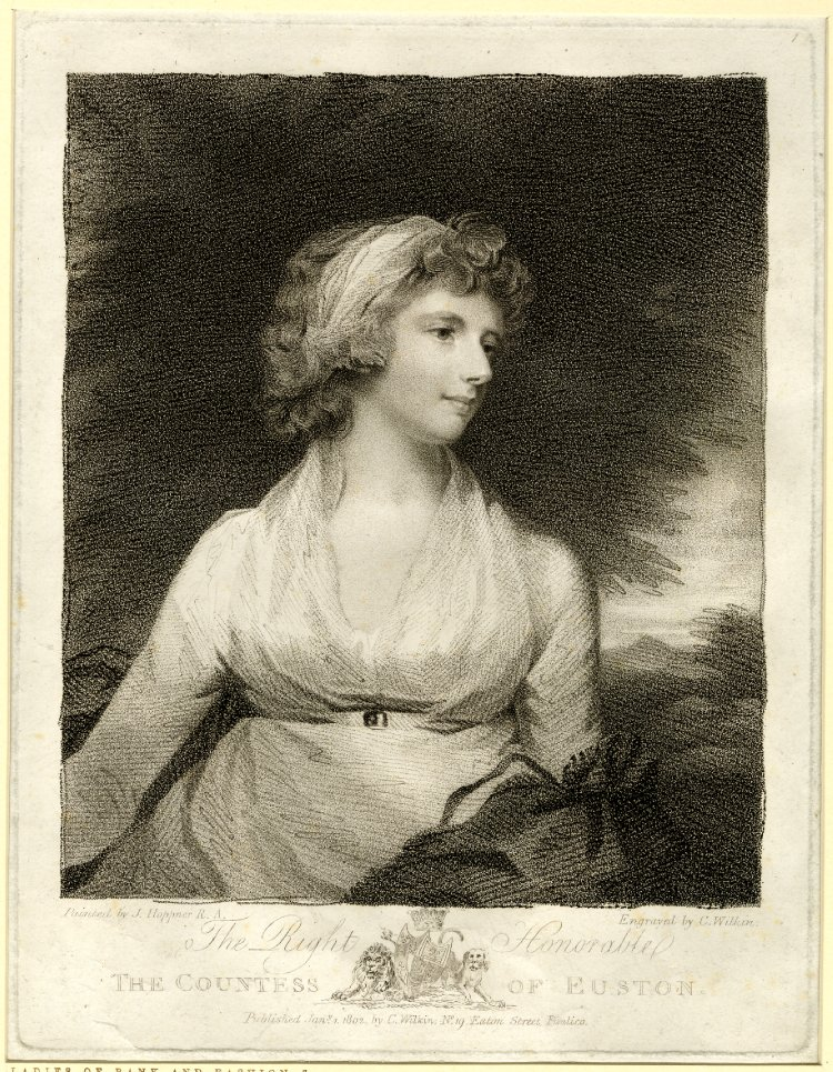 Ladies of Rank and Fashion / Charlotte Maria, The Right Honorable Countess of Euston. Lady Charlotte Maria Waldegrave (1761–1808), married George FitzRoy, 4th Duke of Grafton